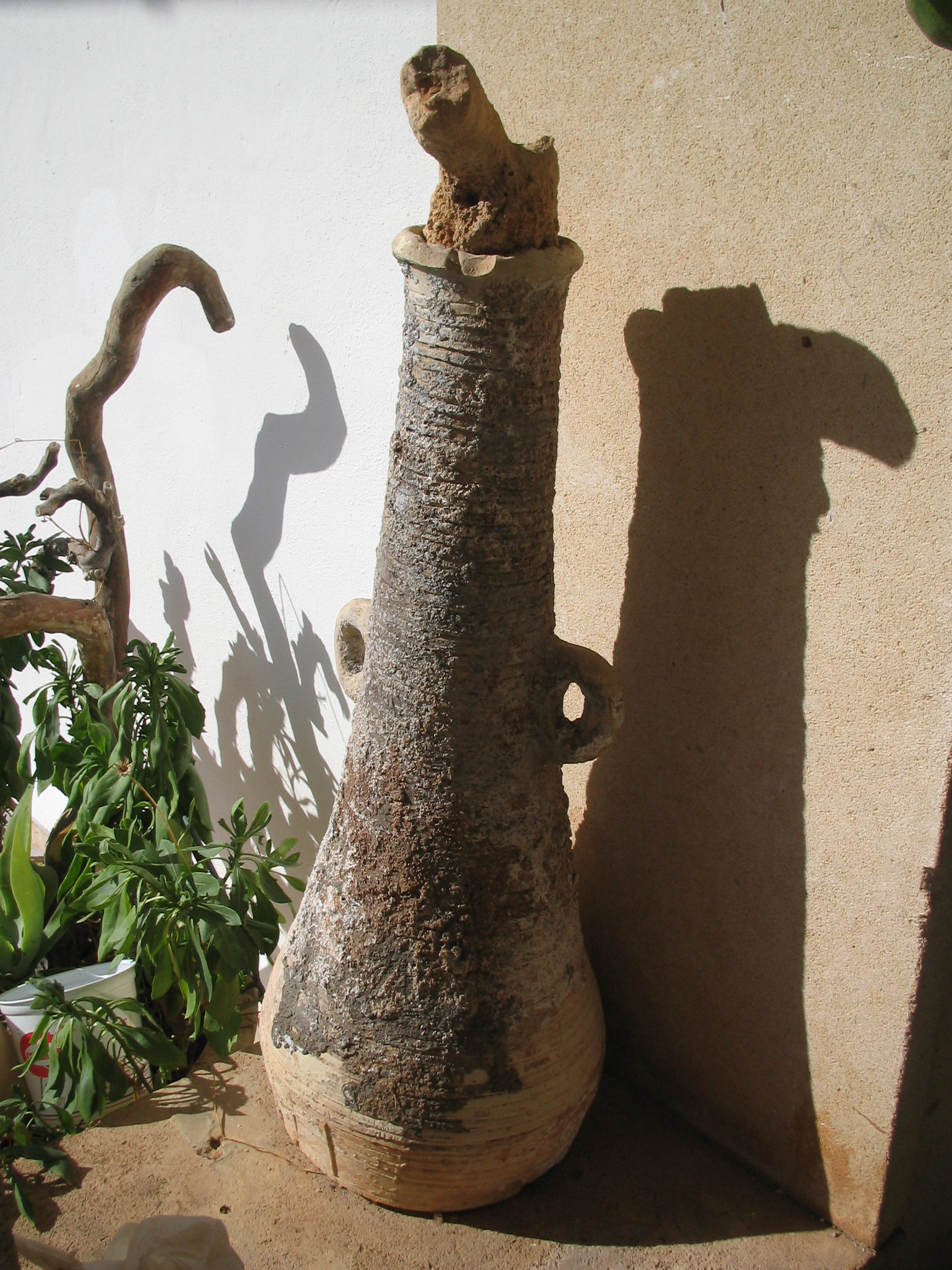 An Amphora